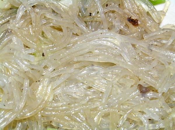 Cellophane noodles Cooked Cellophane noodlesTiếng Việt: Sợi miến sau khi được nấu lên.